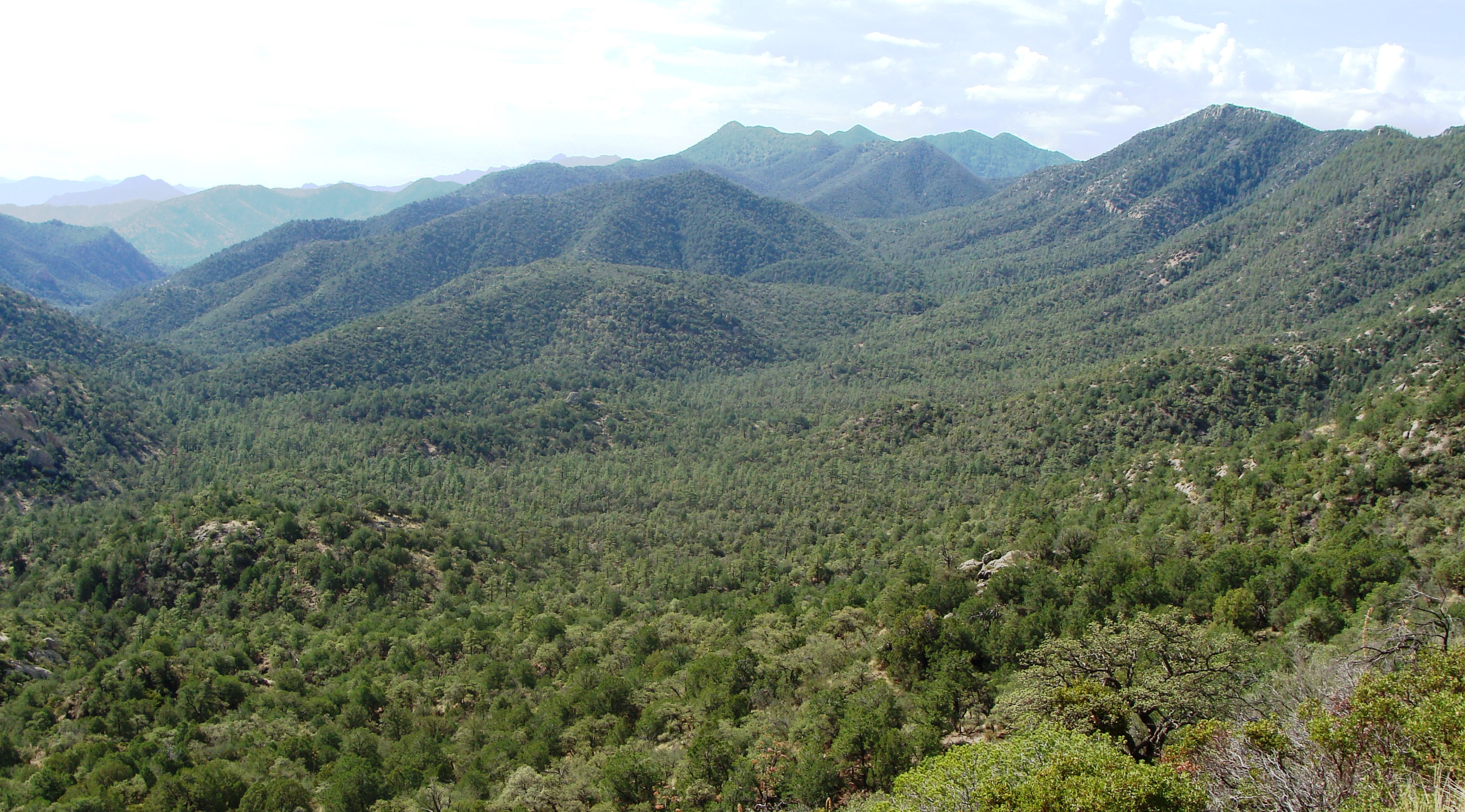 Coronado National Forest and Chiricahua Mountains — in southern Arizona. Approximately 10 miles (16 km) west of Paradise, AZ, looking east.